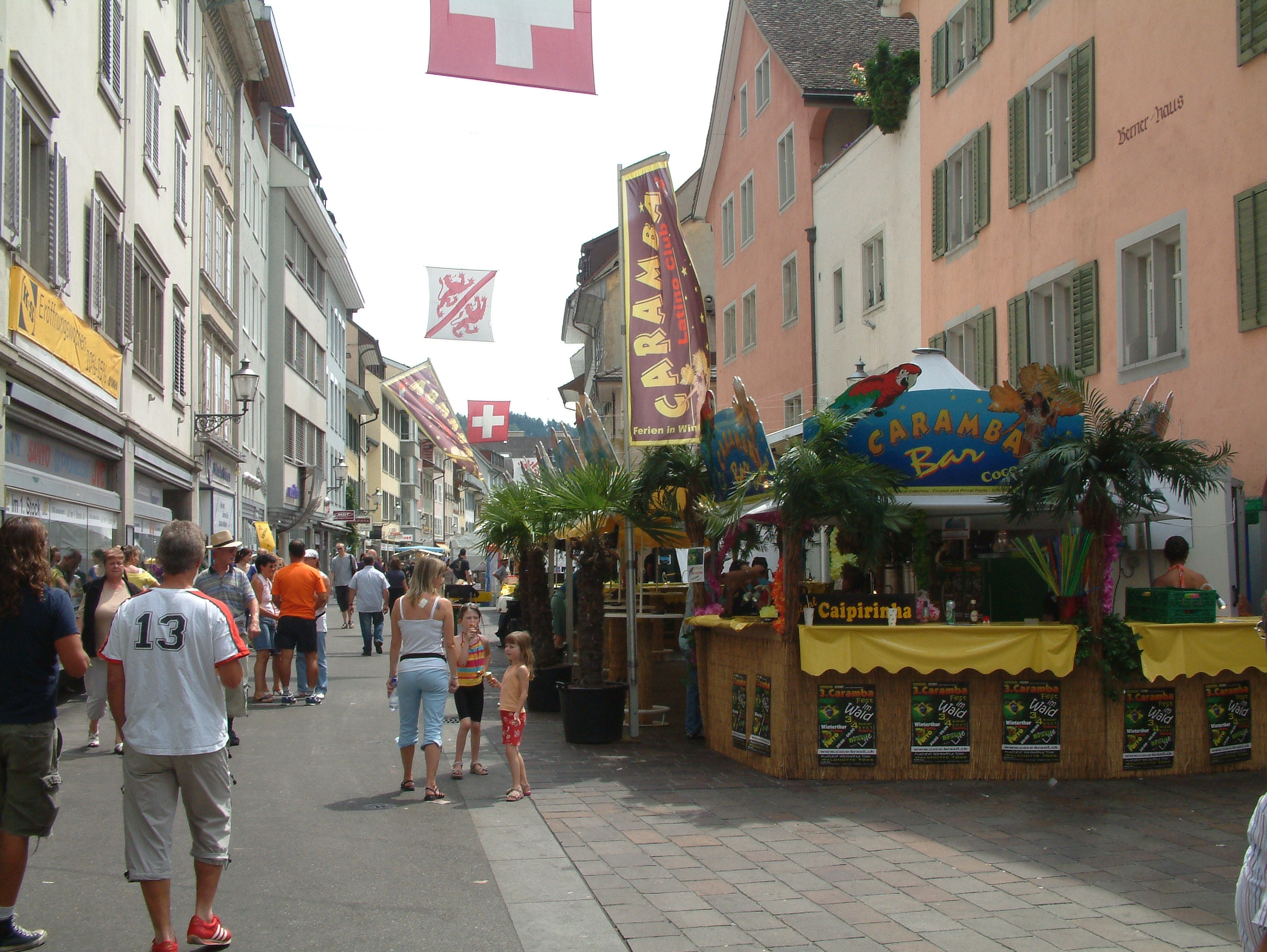 View from The Marketstreet Switzerland Albani celebration Winterhur